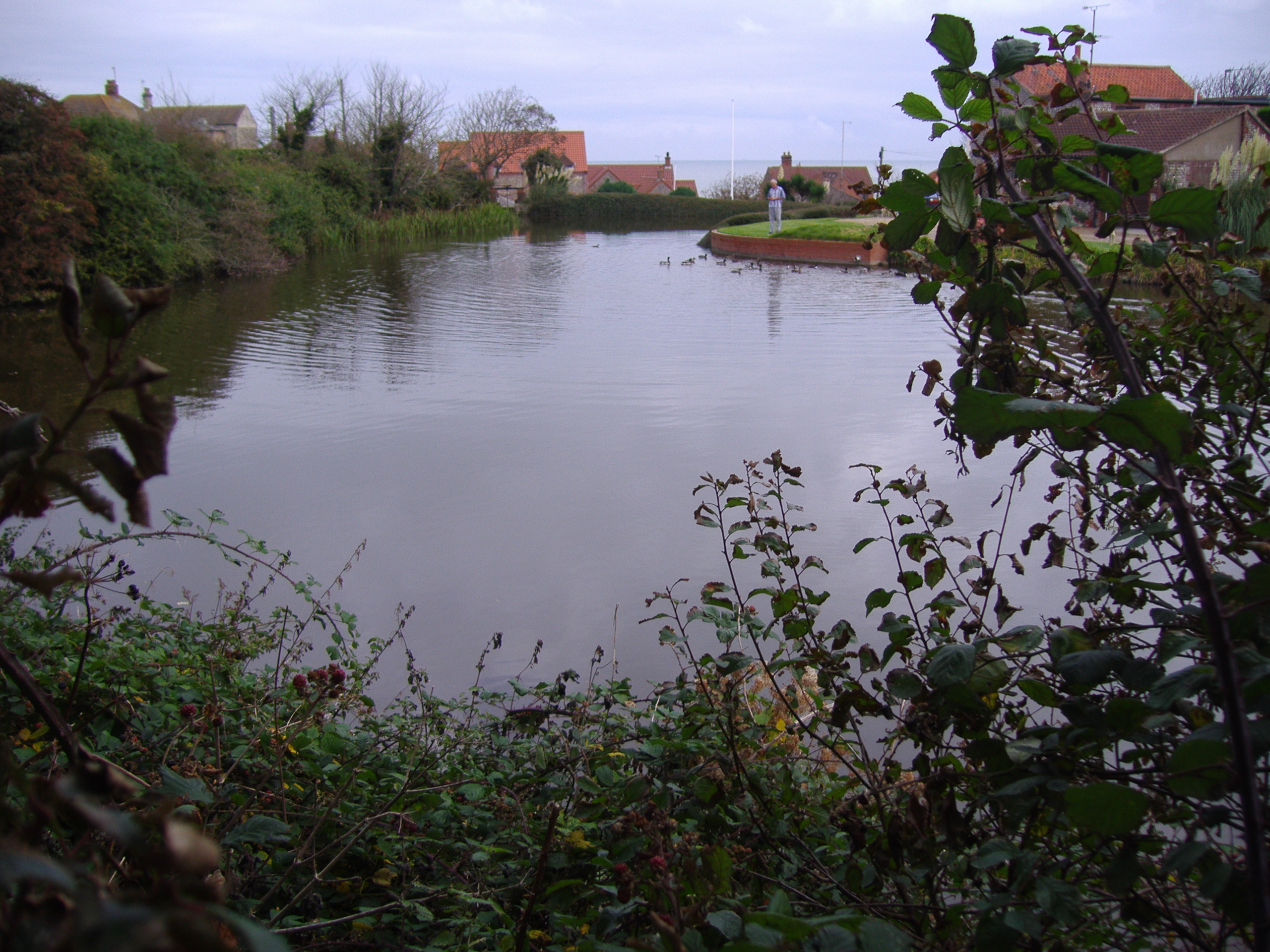 River Mun feeds the mill pond at Mundesley, Norfolk